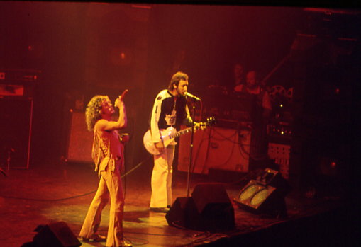 Maple Leaf Gardens, Toronto, Oct. 21, 1976 Photo by Jean-Luc Ourlin